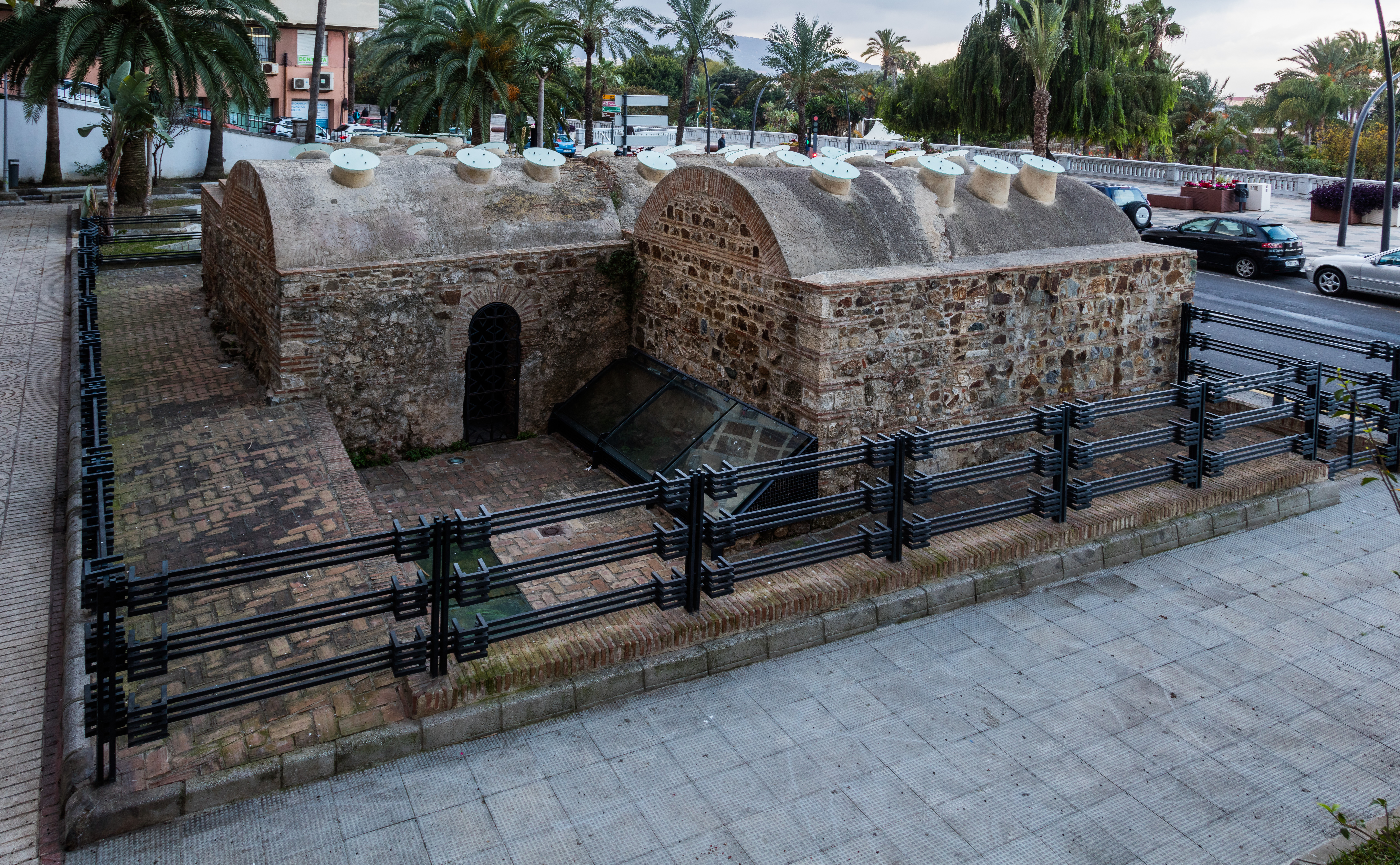 Arab baths, Ceuta, Spain